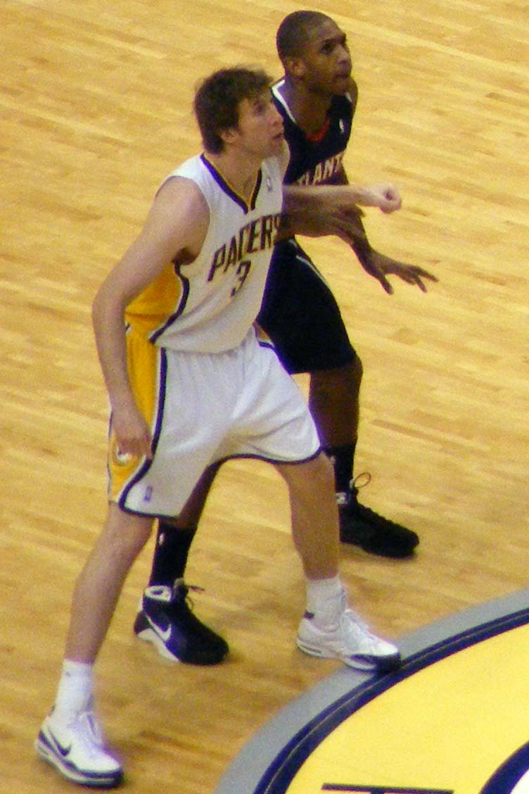 Troy Murphy of the Indian Pacers awaiting a tip-off